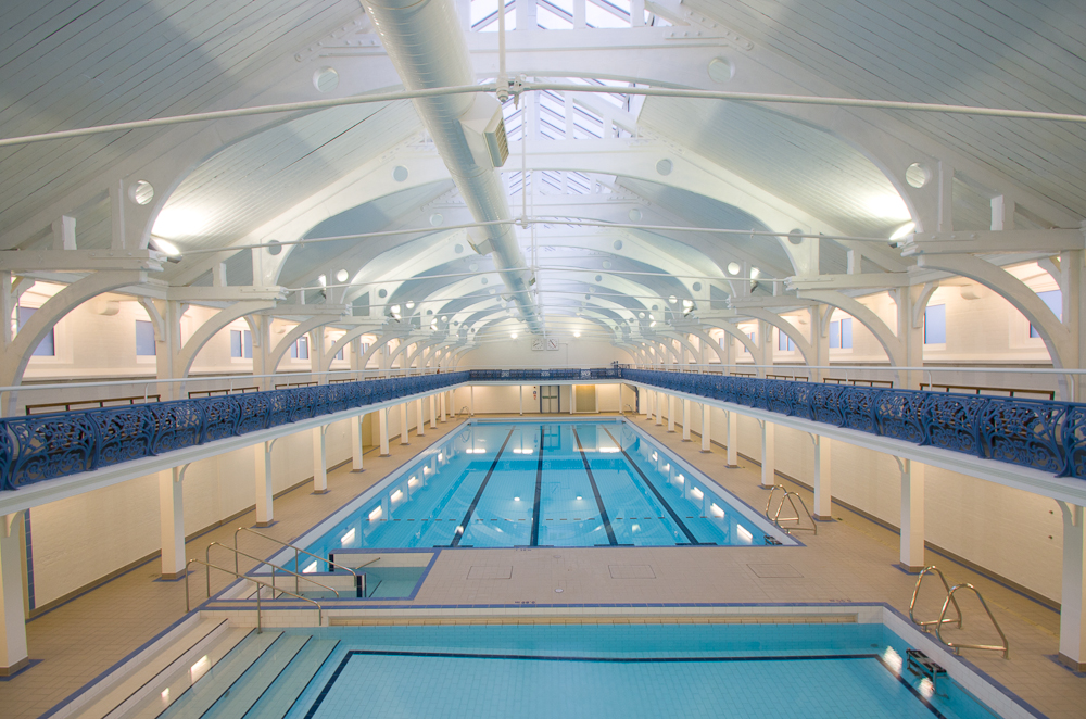 Camberwell Baths shot from the balcony overlooking the swimming pool before the re-opening in 2011.